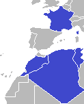 a map shows french colonies in north africa